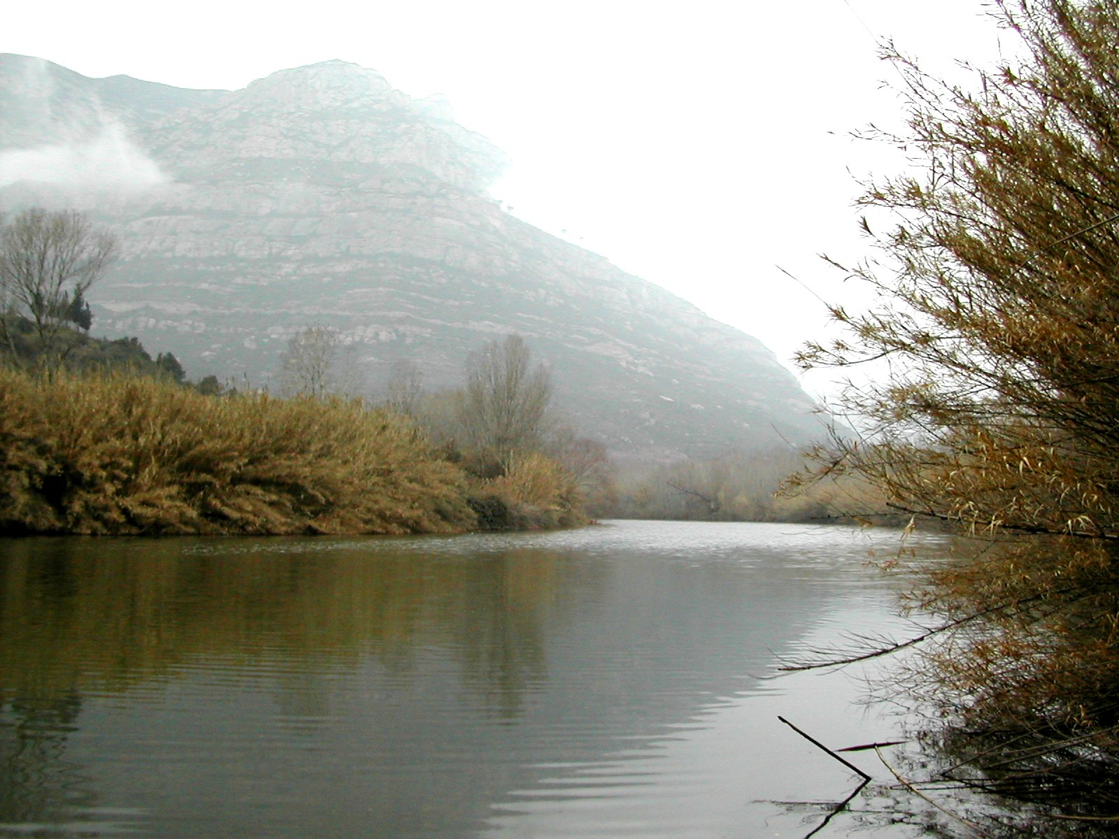 Llogregat river (Olesa de Montserrat, Spain)